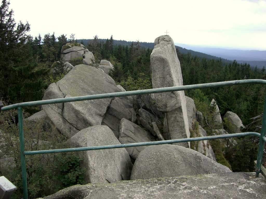 The observation platform on the rock summit of the Nußhardt in the Fichtelgebirge Mountains in northeast Bavaria, Germany